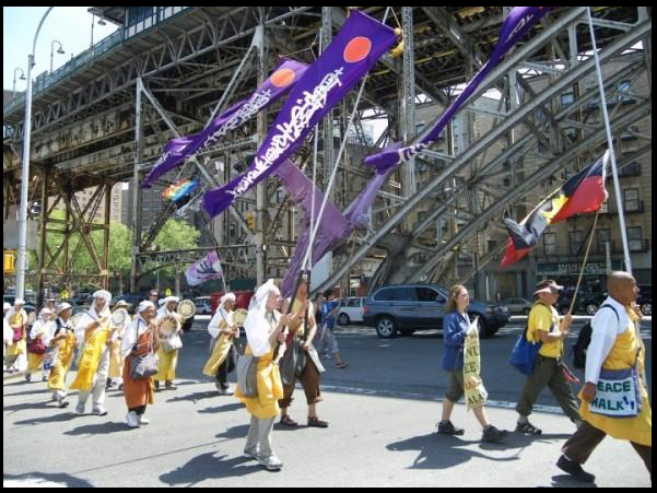 In May of 2010 thousands of people walked across the United States meeting at the United Nations for the Nuclear Non-Proliferation Treaty (NPT) Review conference in to support the treaty and call for a nuclear free future.